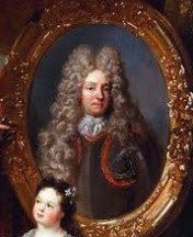 Jean François de Noailles, Marquis of Noailles from a larger painting by Nicolas de Largilliere circa 1698